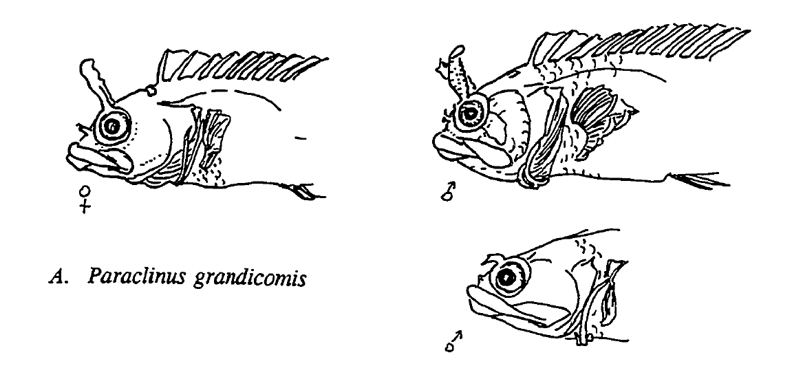 The Illustration indicates the visible differences between male and female horned blennies.